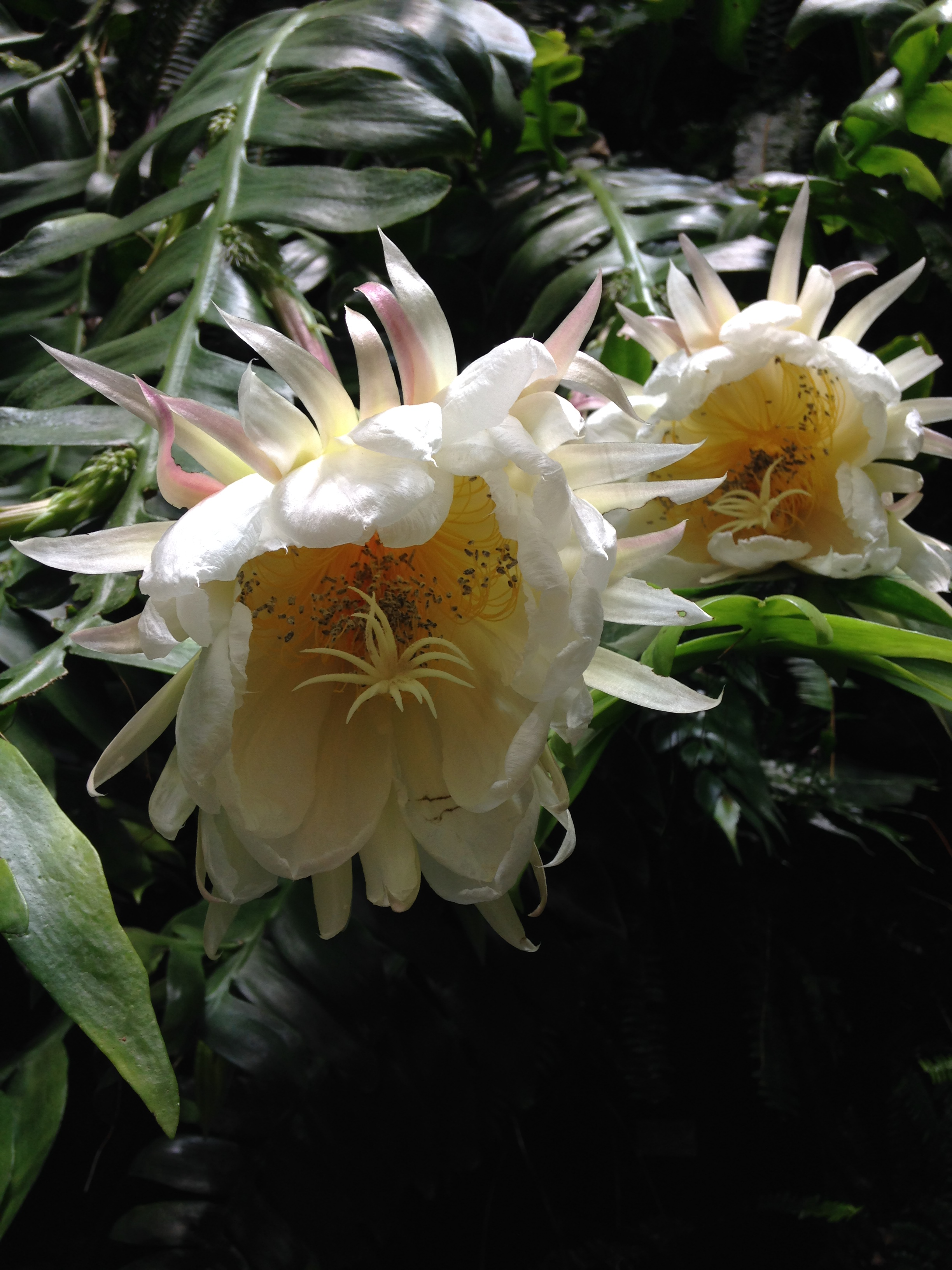 Selenicereus chrysocardium at the Bergius garden in Stockholm, 2013